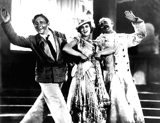 Jolly Fellows (film), the first musical comedy, filmed in 1934 in the USSR. The film is considered a classic Soviet comedy.